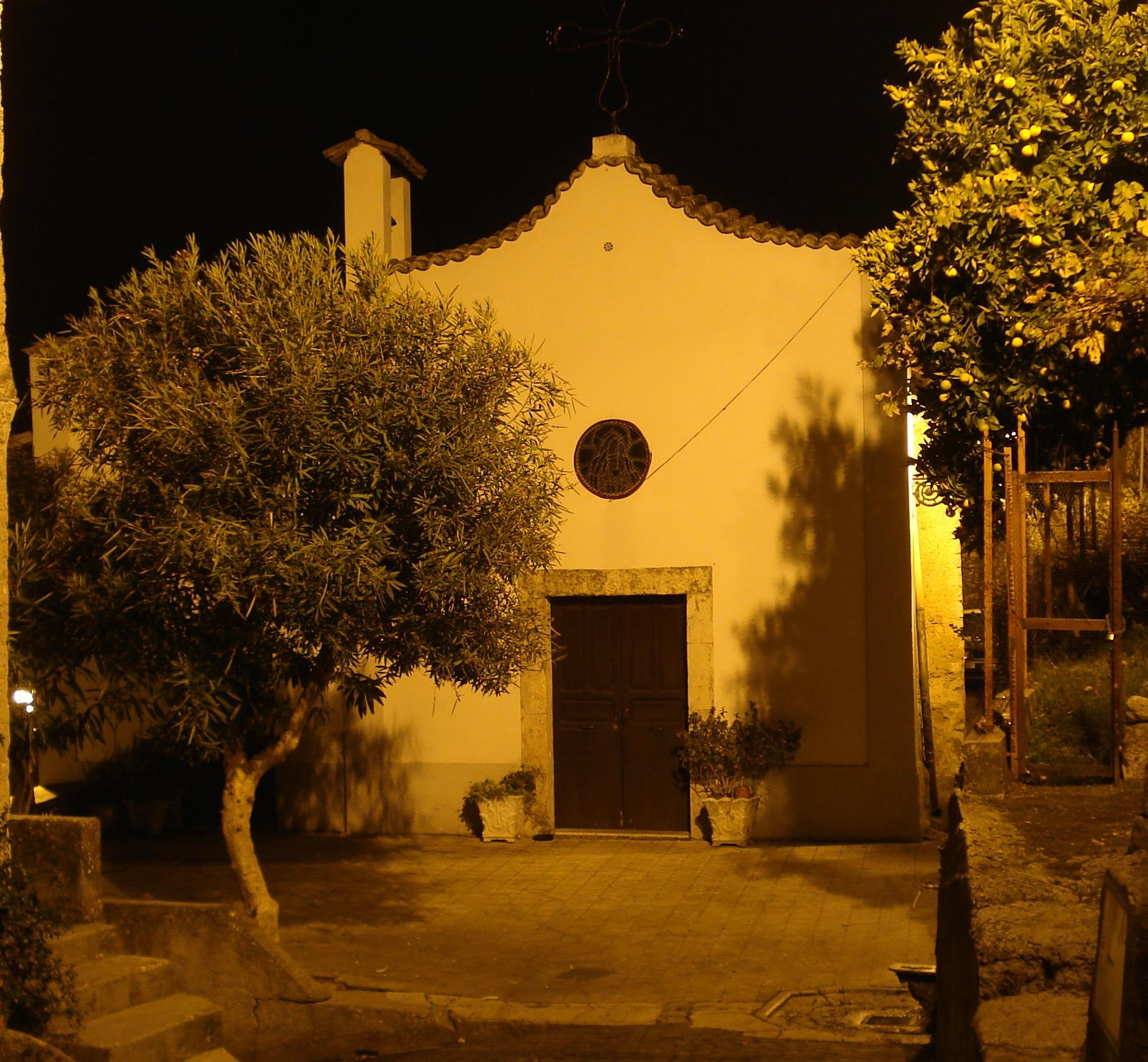 façade of St. Mary's church, in Arce, Italy.